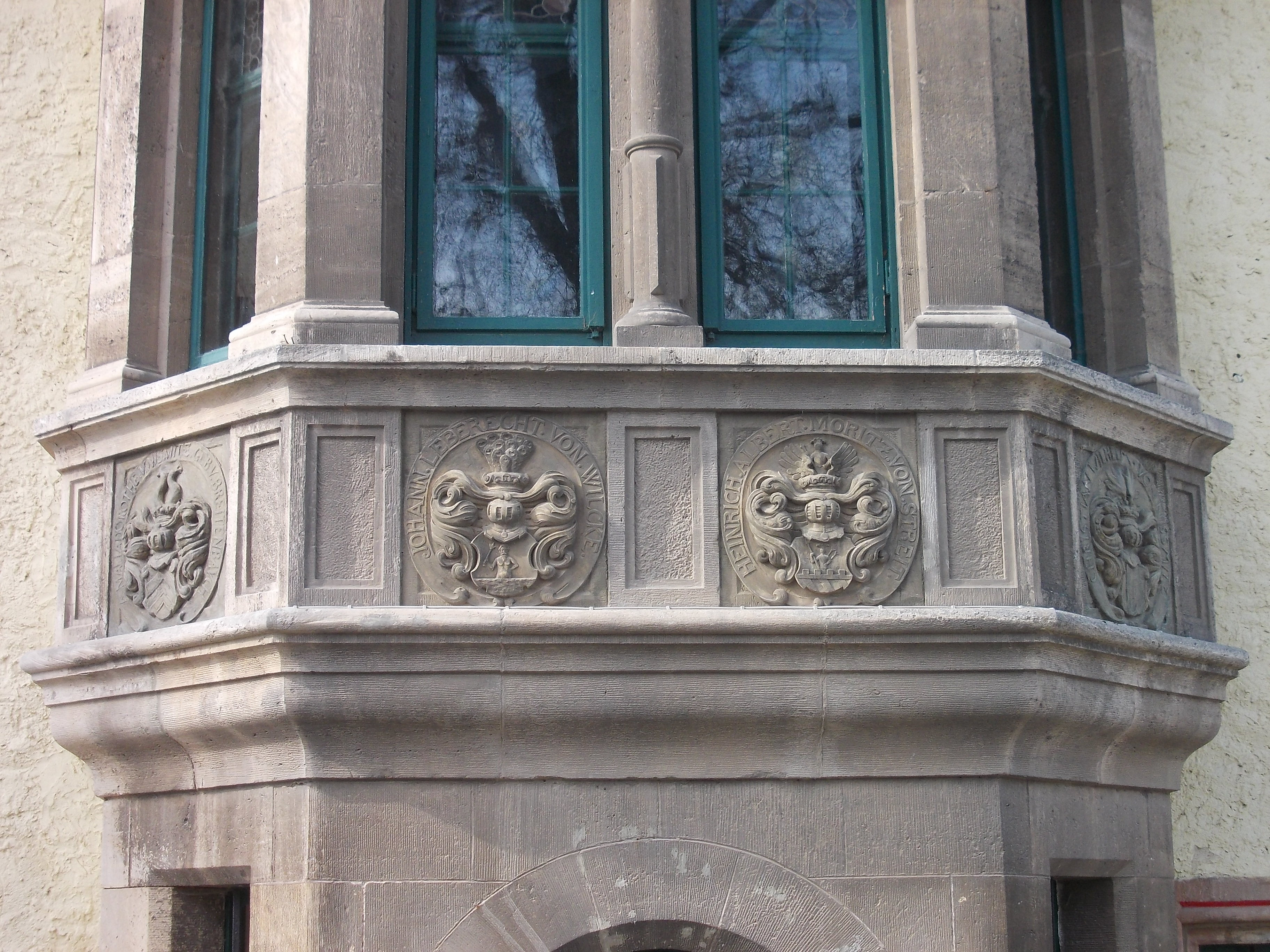 Weischütz manor house (Freyburg/Unstrut, district: Burgenlandkreis, Saxony-Anhalt)